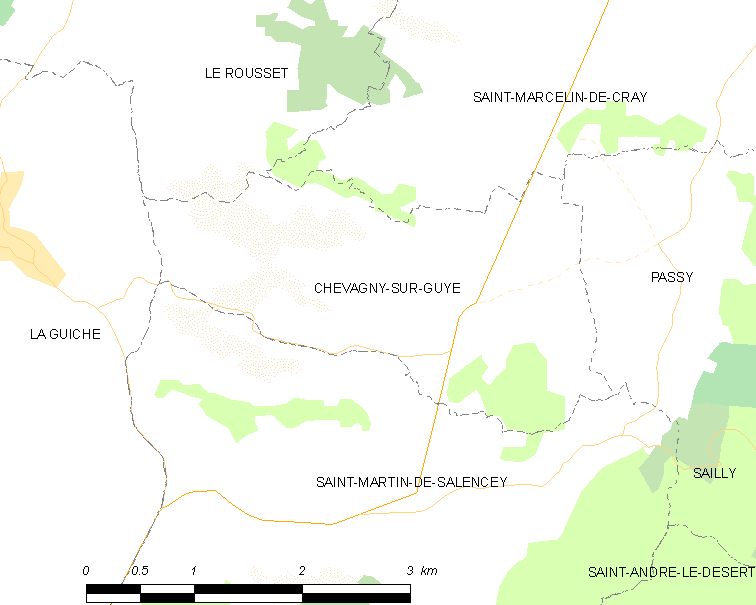 Map of French municipality